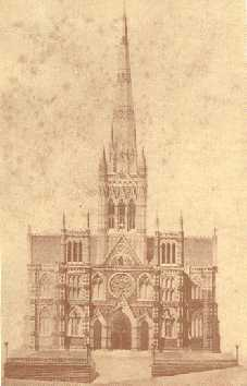 Front elevation of St Joseph's Cathedral Dunedin, Otago, New Zealand by the architect Francis Petre